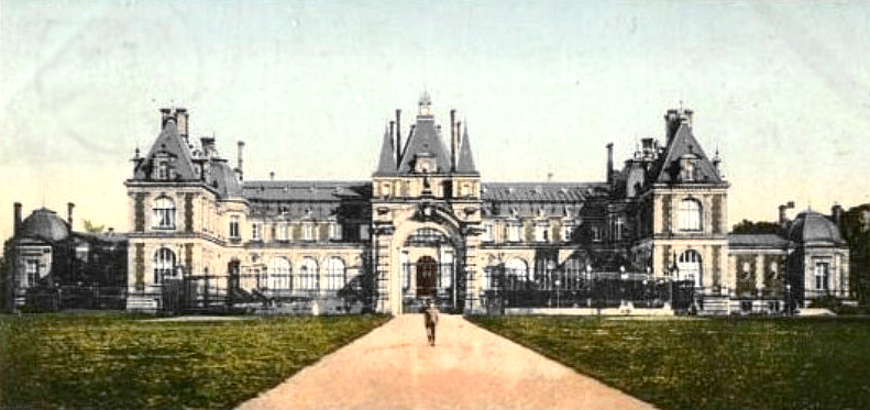 The entrance of the new palace in Świerklaniec with the gate. It was the most important part of the three palaces there of the Donnersmarck family. It was burned down in 1945 and pulled down in 1961